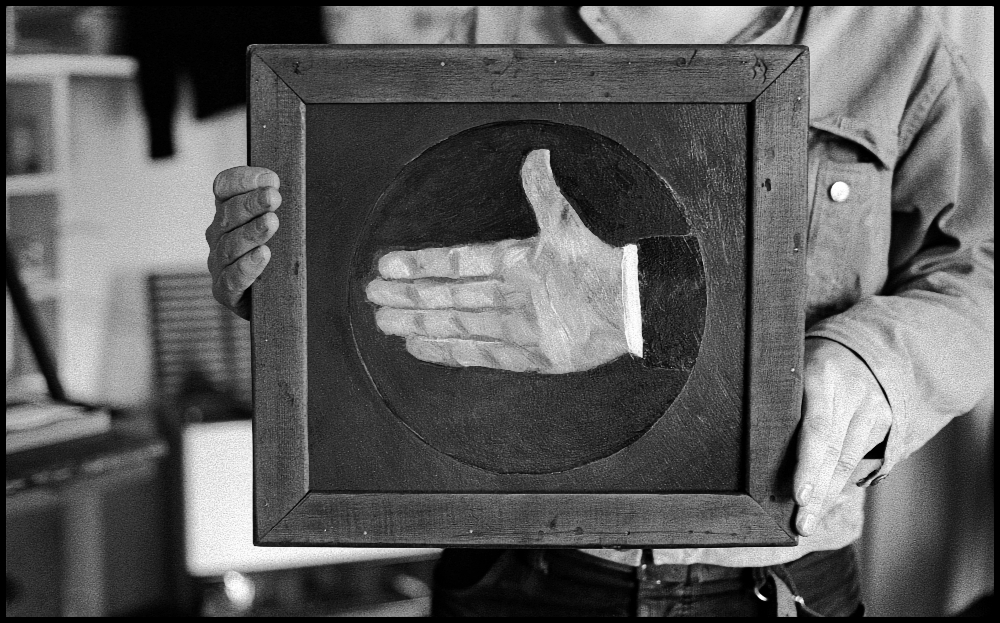 Artwork of Peter Brötzmann.